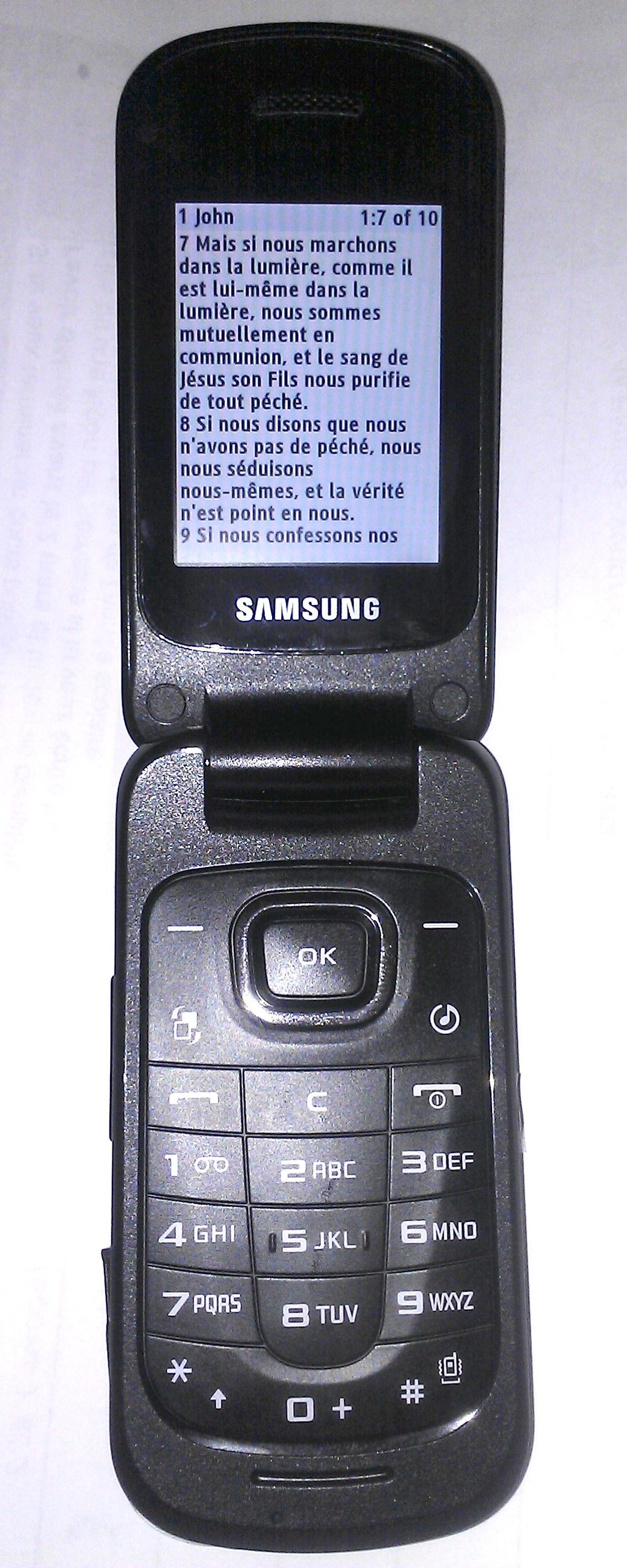 The Samsung C414 feature phone, commonly available in Canada.